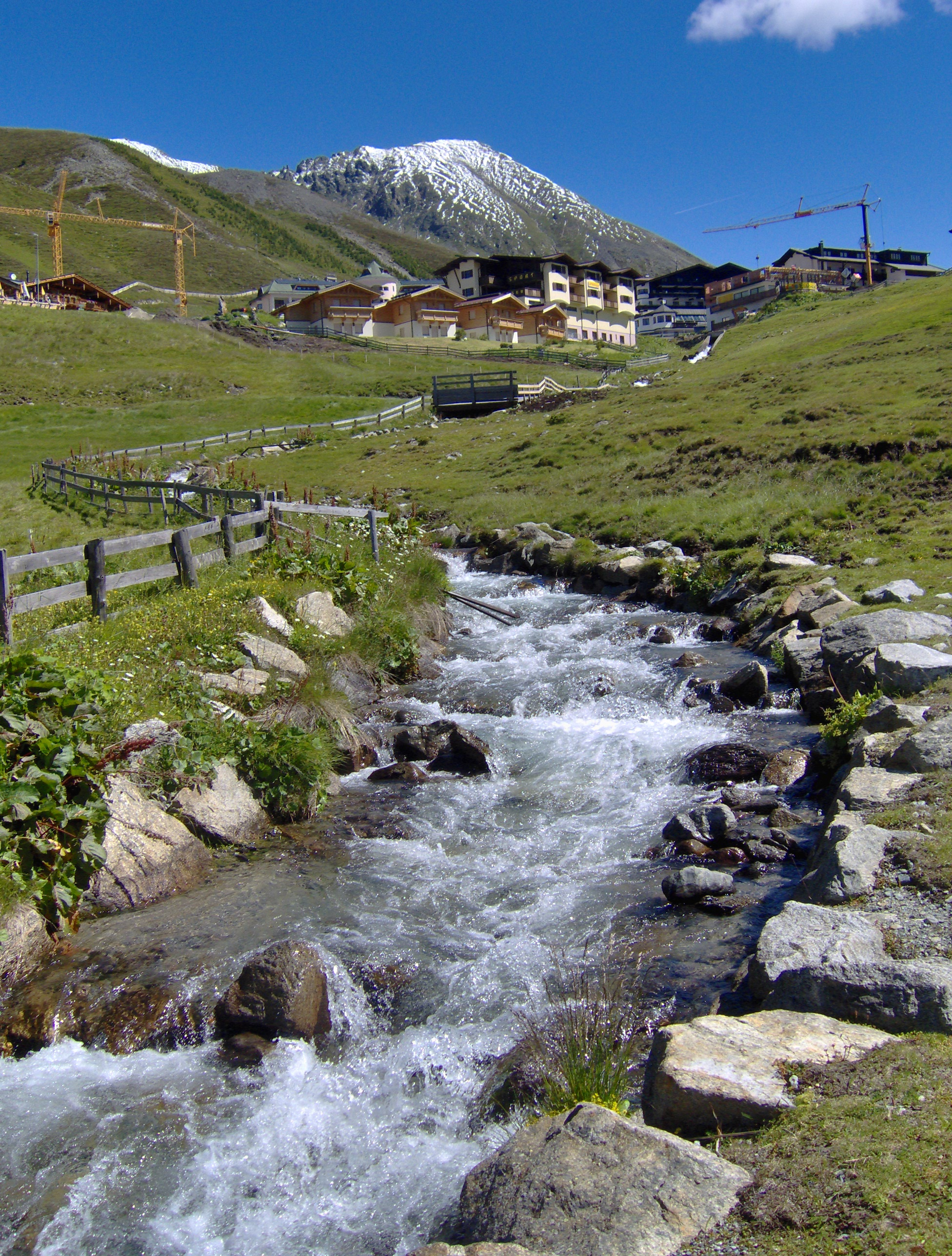 The river Stuibenbach near Kühtai, Tyrol, Austria